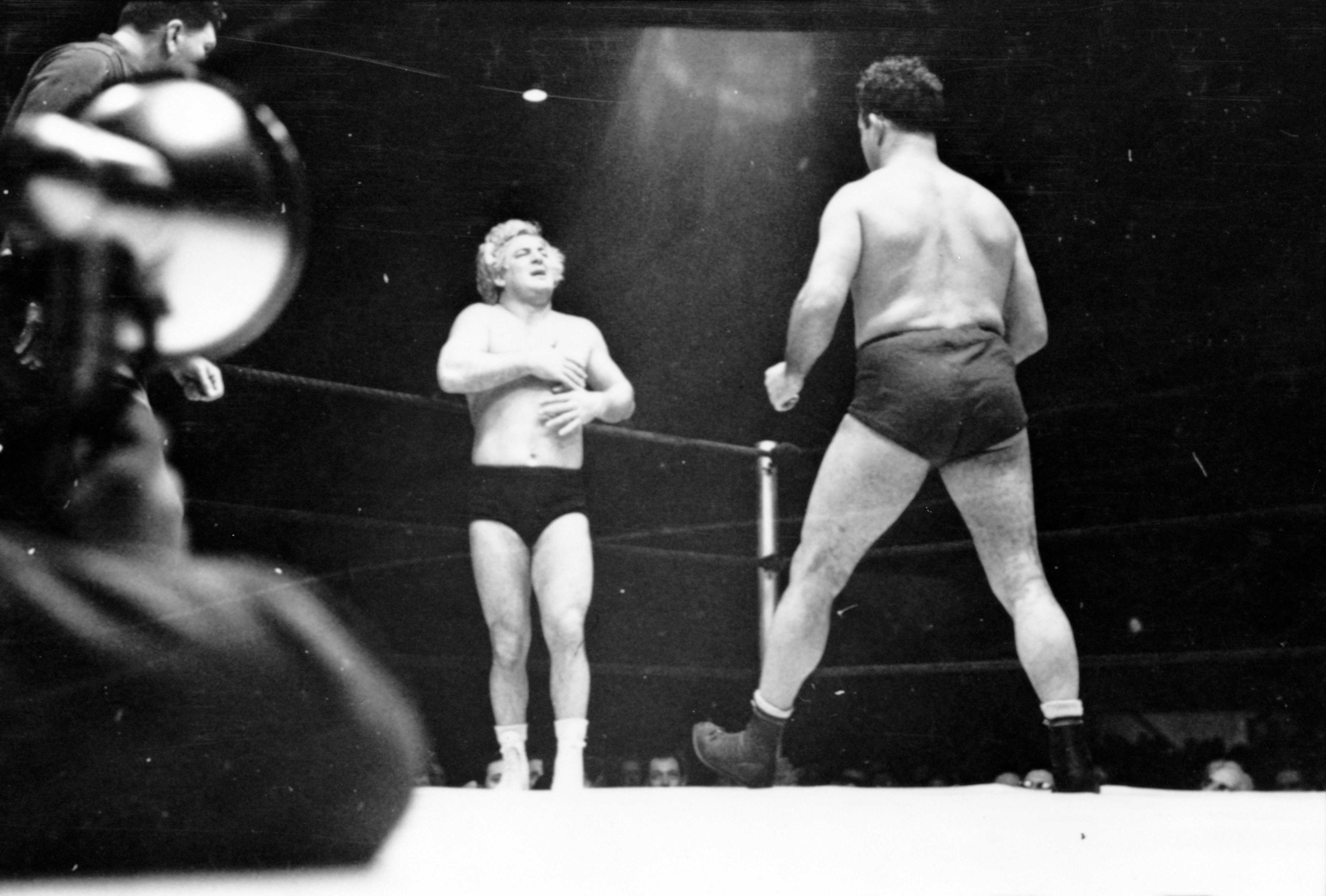 A wrestler strides toward Gorgeous George who stands near a corner of the ring with his hands on his chest where he had received a blow in the previous maneuver in the wrestling match.